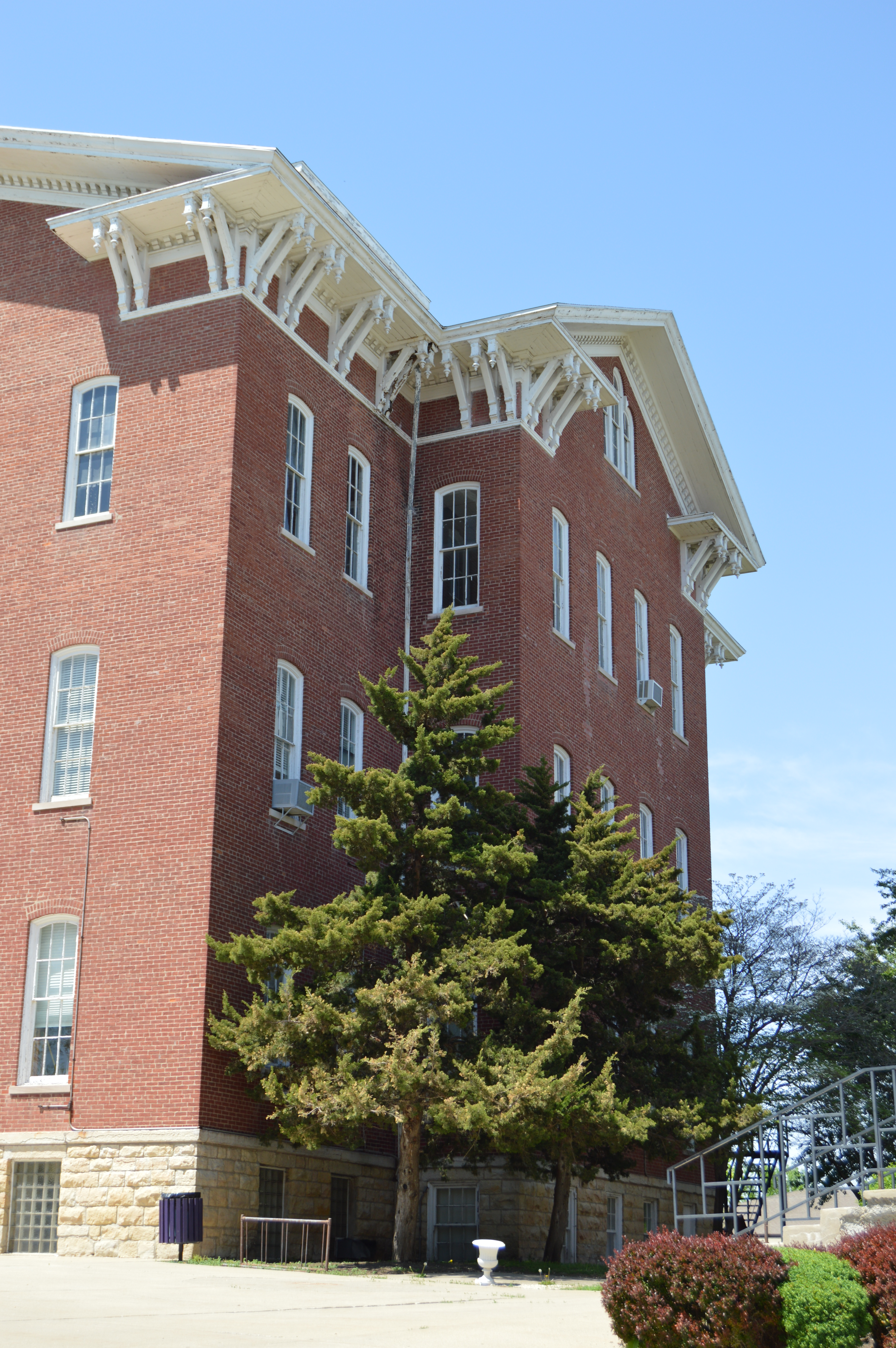 Eastern side of University Hall, located on the campus of Lincoln College in Lincoln, Illinois, United States. Built in 1865, it is listed on the National Register of Historic Places.